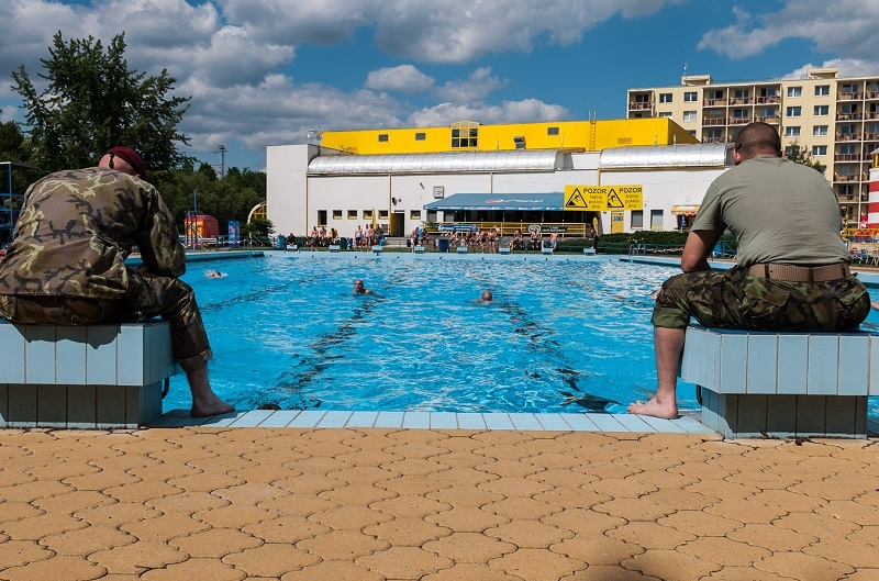 Selection of the 43rd Airborne Battalion (CZE), swim test